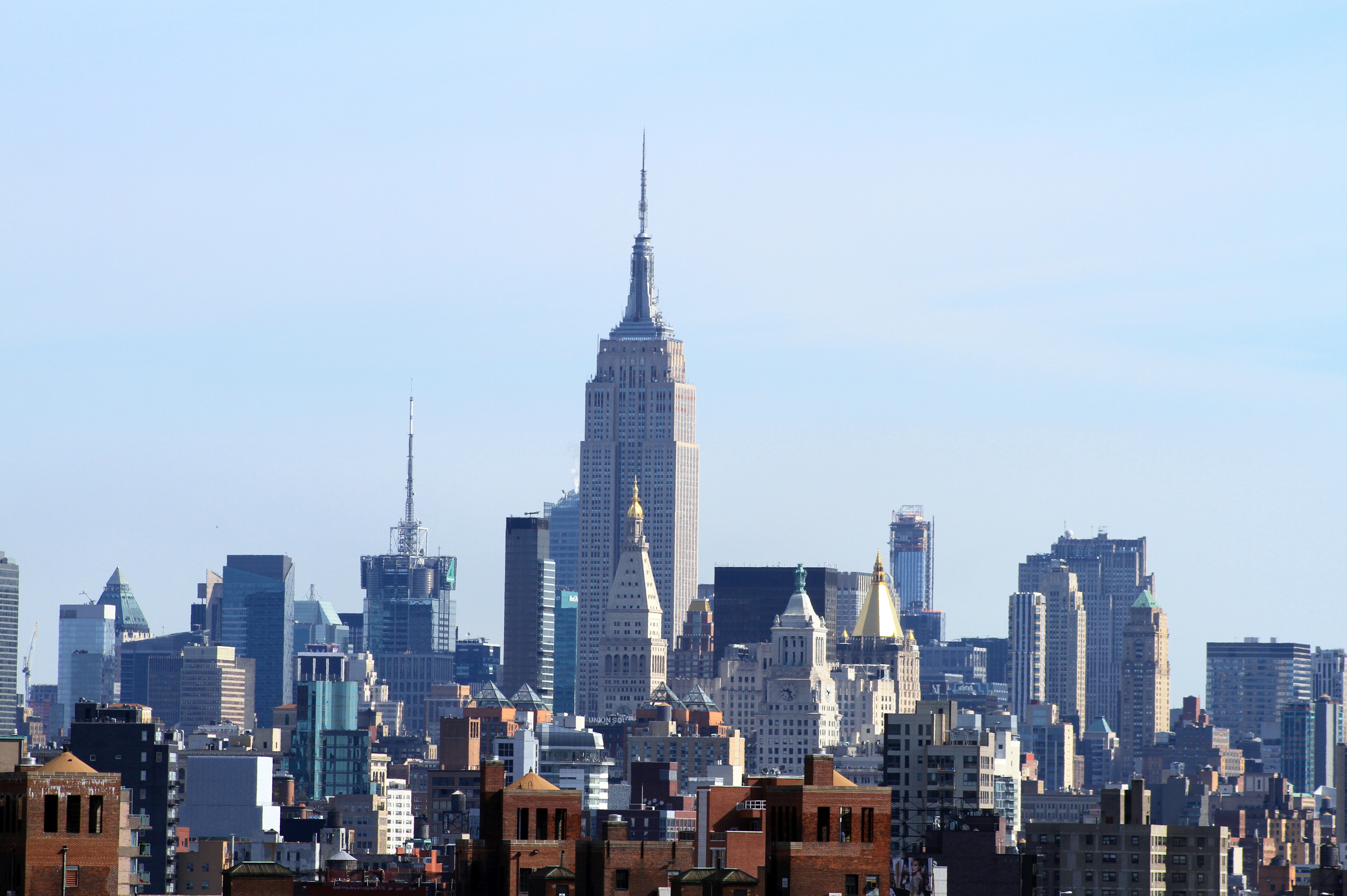 Manhattan & Empire State, 2013